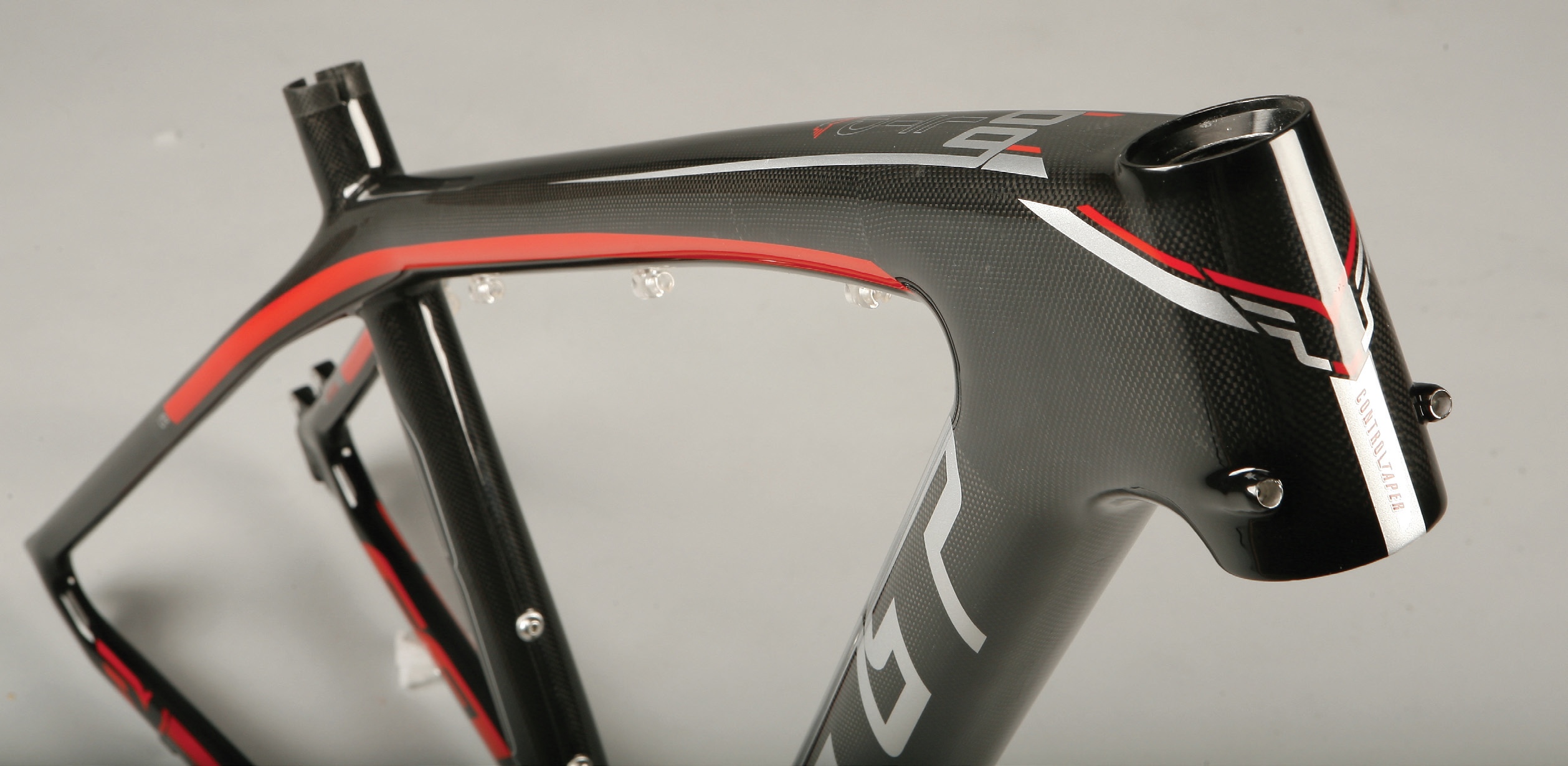 Felt Edict NINE Frame